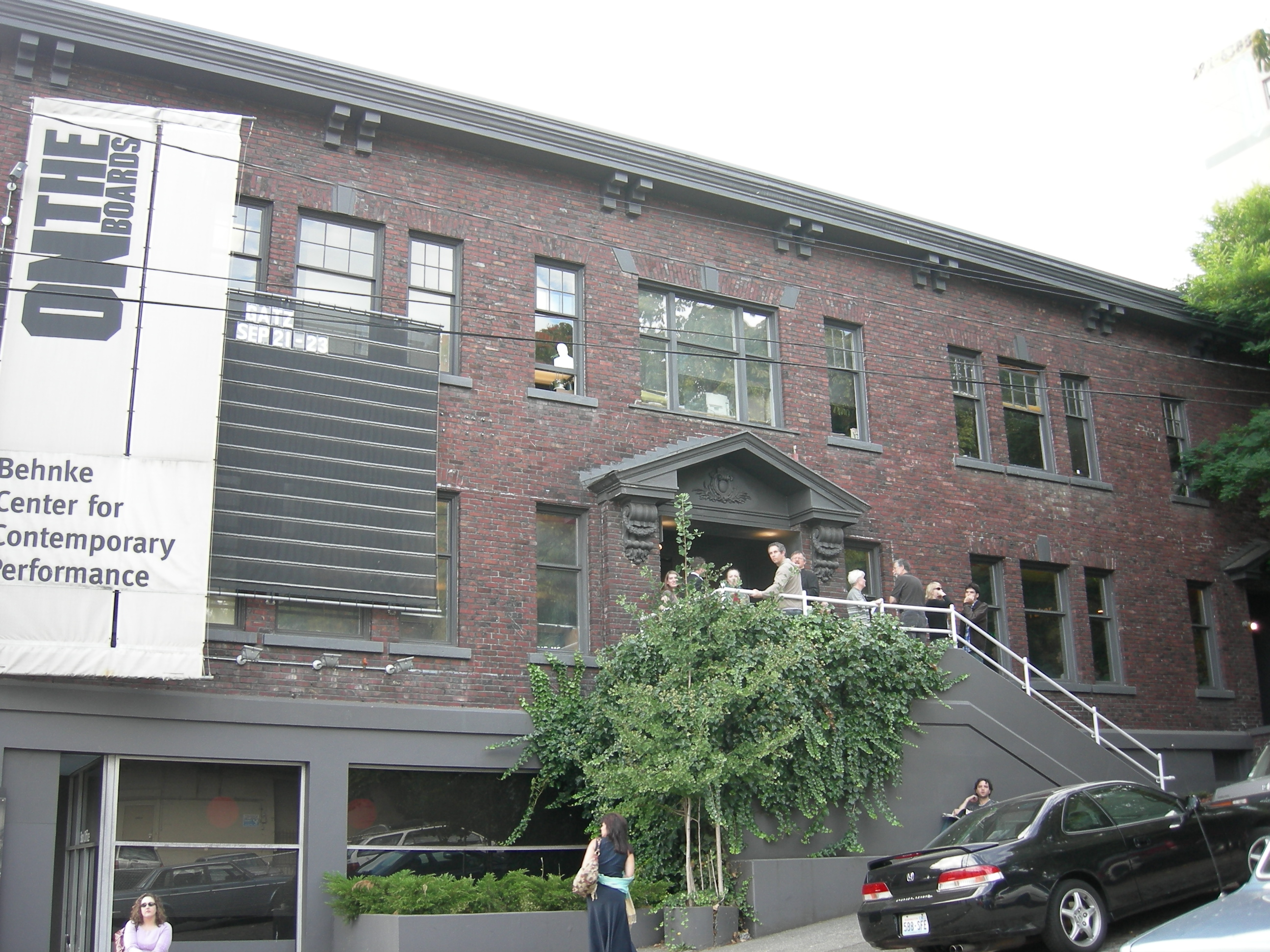 On the Boards, 100 West Roy Street, Lower Queen Anne, Seattle, Washington, USA. The building was previously home to A Contemporary Theater (ACT), now in the Eagles Auditorium; On the Boards was previously at Washington Hall (14th and Fir). The building, constructed 1912 was initially known as Redding Hall; there is a good short piece about it at [1].